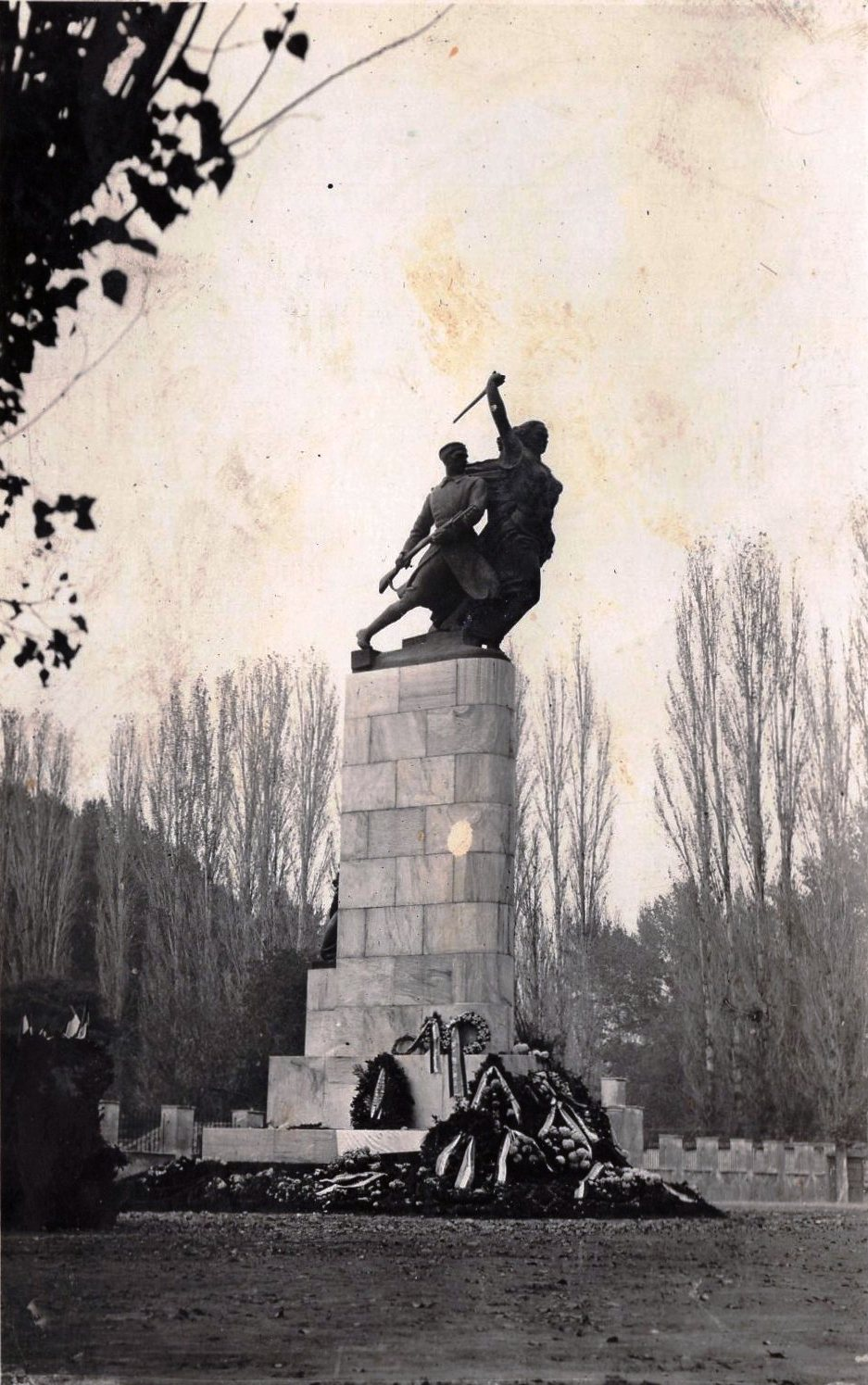 Postcard of Skopje, Monument of students, soldiers, 1940 This media file is produced by Wikipedian in Residence in Category:Wikipedian in Residence at DARM in 2016.